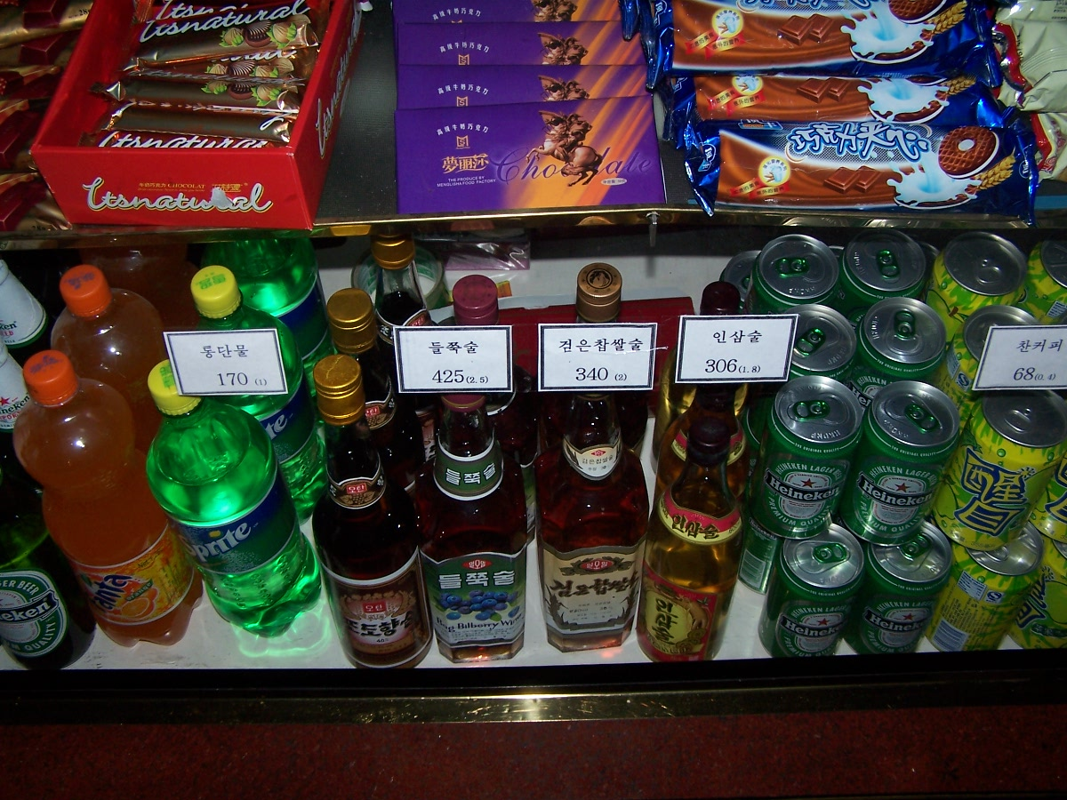 A special store for foreigners in Pyongyang. Most merchandize are imported from China. Price in Euro and DPRK won.